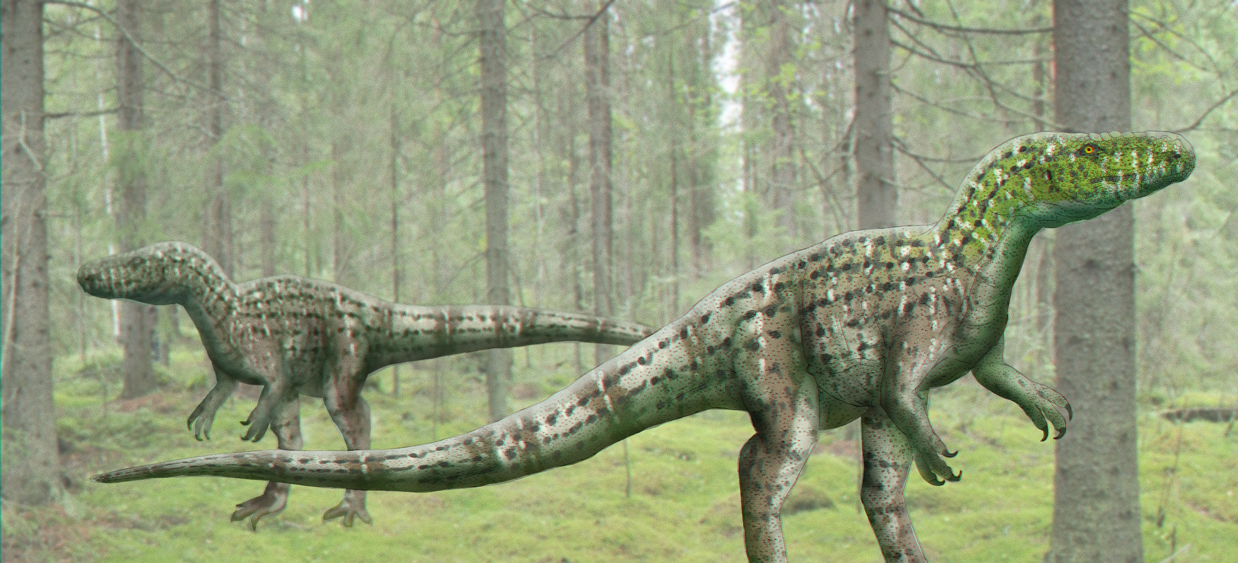 Life restoration of two Poekilopleuron in a forest. Many experts suggest that Poekilopleuron was a forest-dweller. The forest in which Poekilopleuron lived may had turtles and other dinosaurs, which it could have ate.